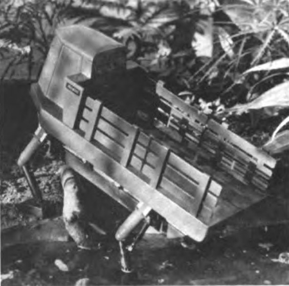 ATAC Walking Truck wooden mock-up landing out of a river.